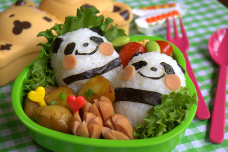 A Kyaraben depicting pandas